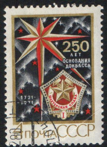 USSR stampː Star and Miner's Glory Medal against Coal. Seriesː 250th Anniversary of Donbass - Donets Coal Basin (Discovered in 1721)